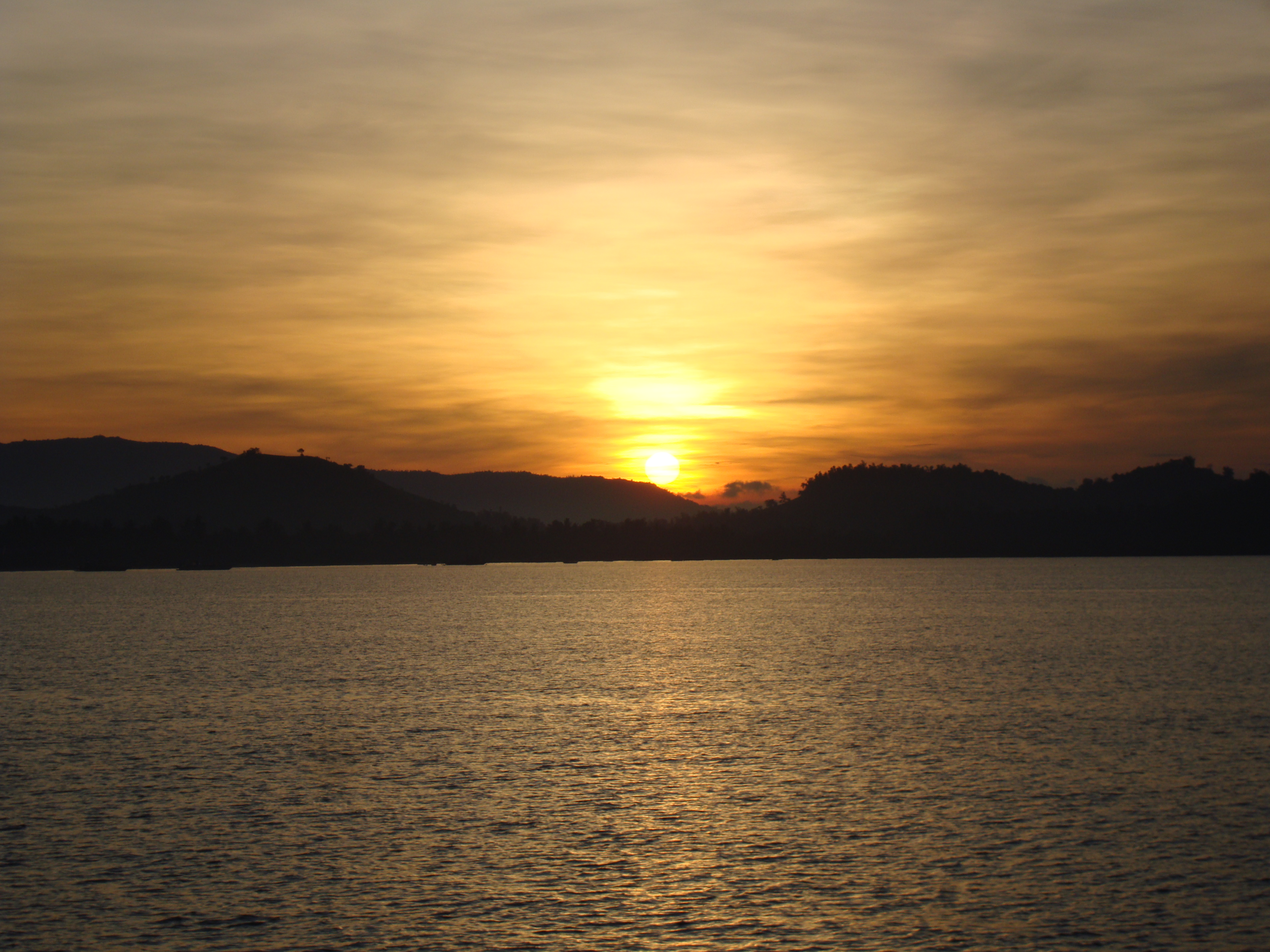 A picturesque view of the twilight just before sunrise my wife and I stumbled upon.Taken during our morning walking routine with luck of timing and weather allows this catching scene to take place. The sun peeked over the hilly horizon of San Salvador to the east. - At dawn, while the rest of the world sleeps, fishermen of this town slips into the darkness to get the best catch of the day. As they say on land, the early bird catches the worm, and it is true that to get the best catch of the day you need an early start.